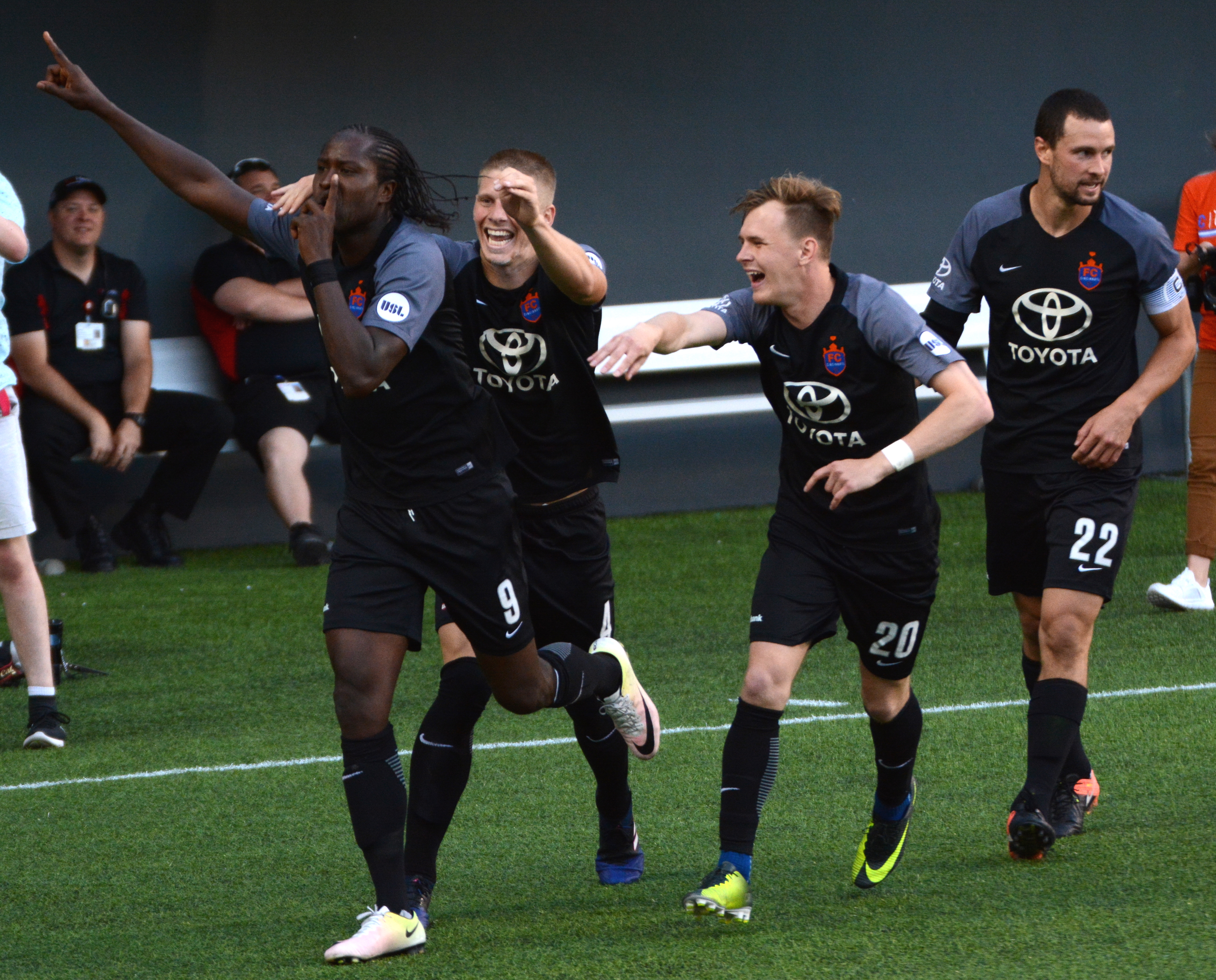 Harrison Delbridge, Jimmy McLaughlin, and Austin Berry cheer on Djiby Fall as he celebrates a goal. Taken at a Lamar Hunt U.S. Open Cup match between FC Cincinnati and Louisville City FC at Nippert Stadium in Cincinnati, Ohio on May 31, 2017.